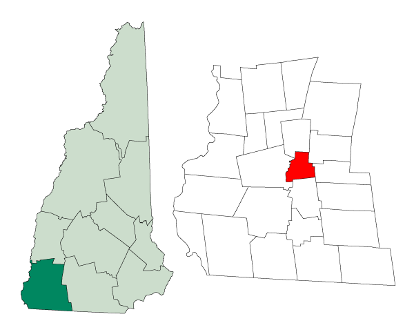 Map of a municipality in Cheshire County, New Hampshire